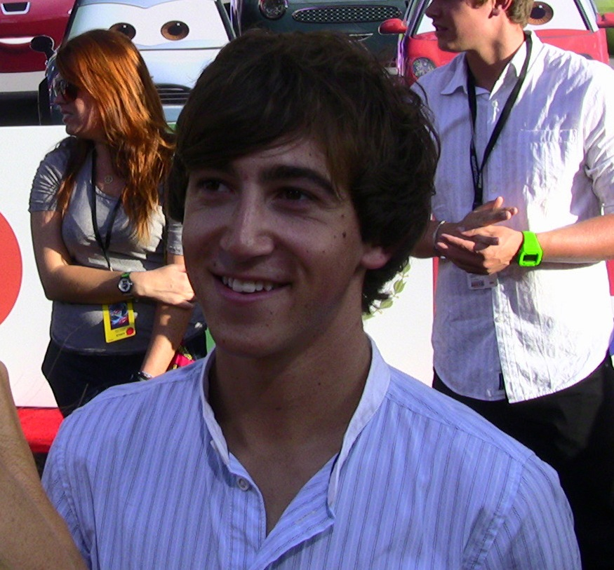 Vincent Martella at the world premiere for Cars 2 in Hollywood Heights, Los Angeles, CA in June